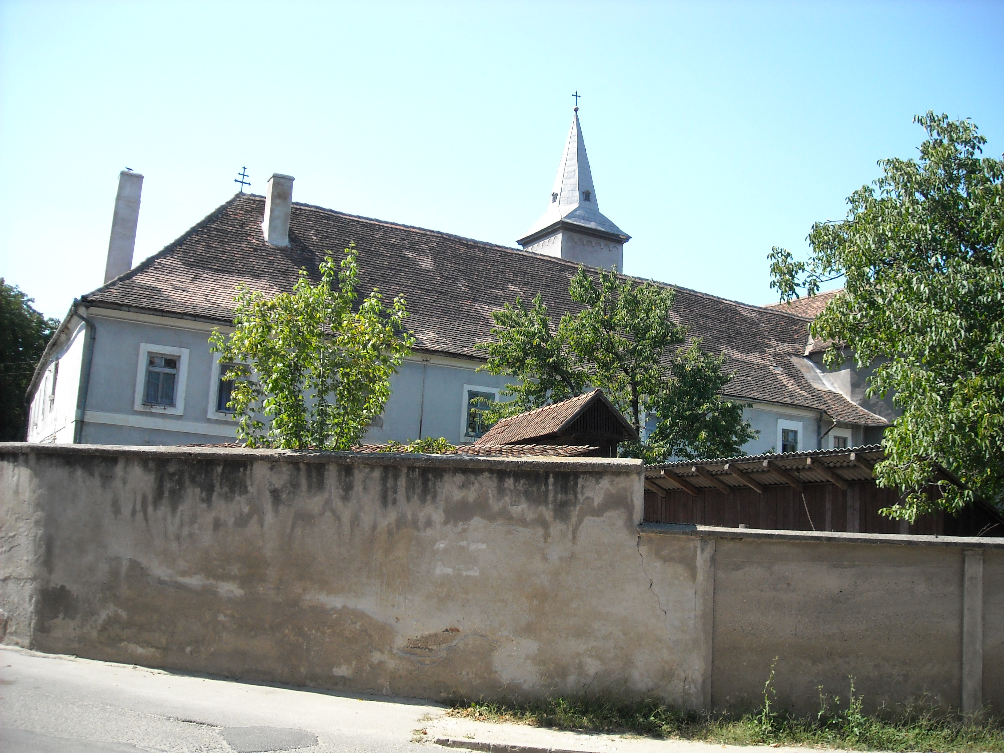 Orăştie (Szászváros, Broos), Franciscan monastery